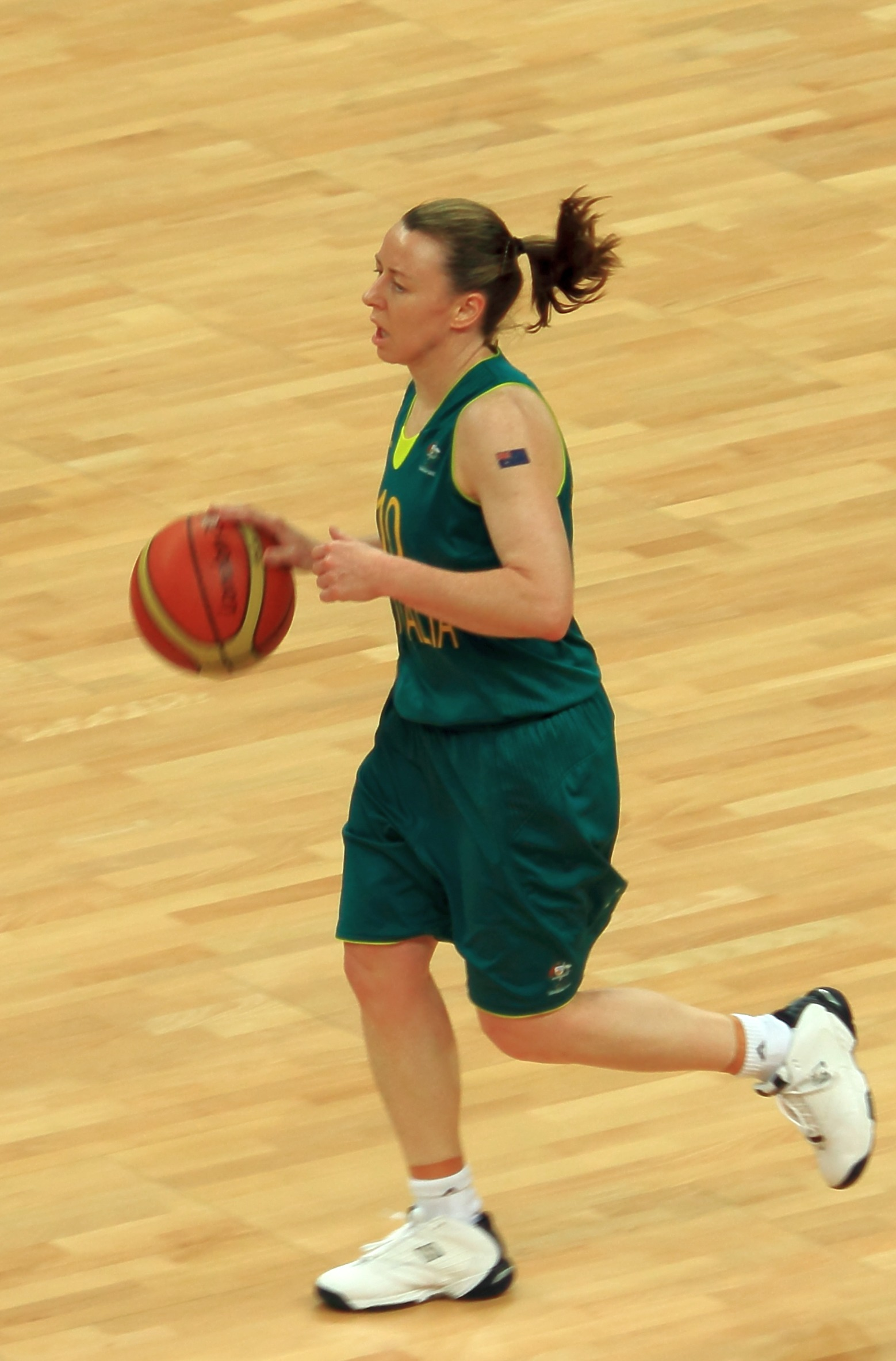 Australian womens basketball and club player for Bendigo Spirit, Kristi Harrower dribbles the ball forward in this Group B London Olympic preliminary game against Russia.